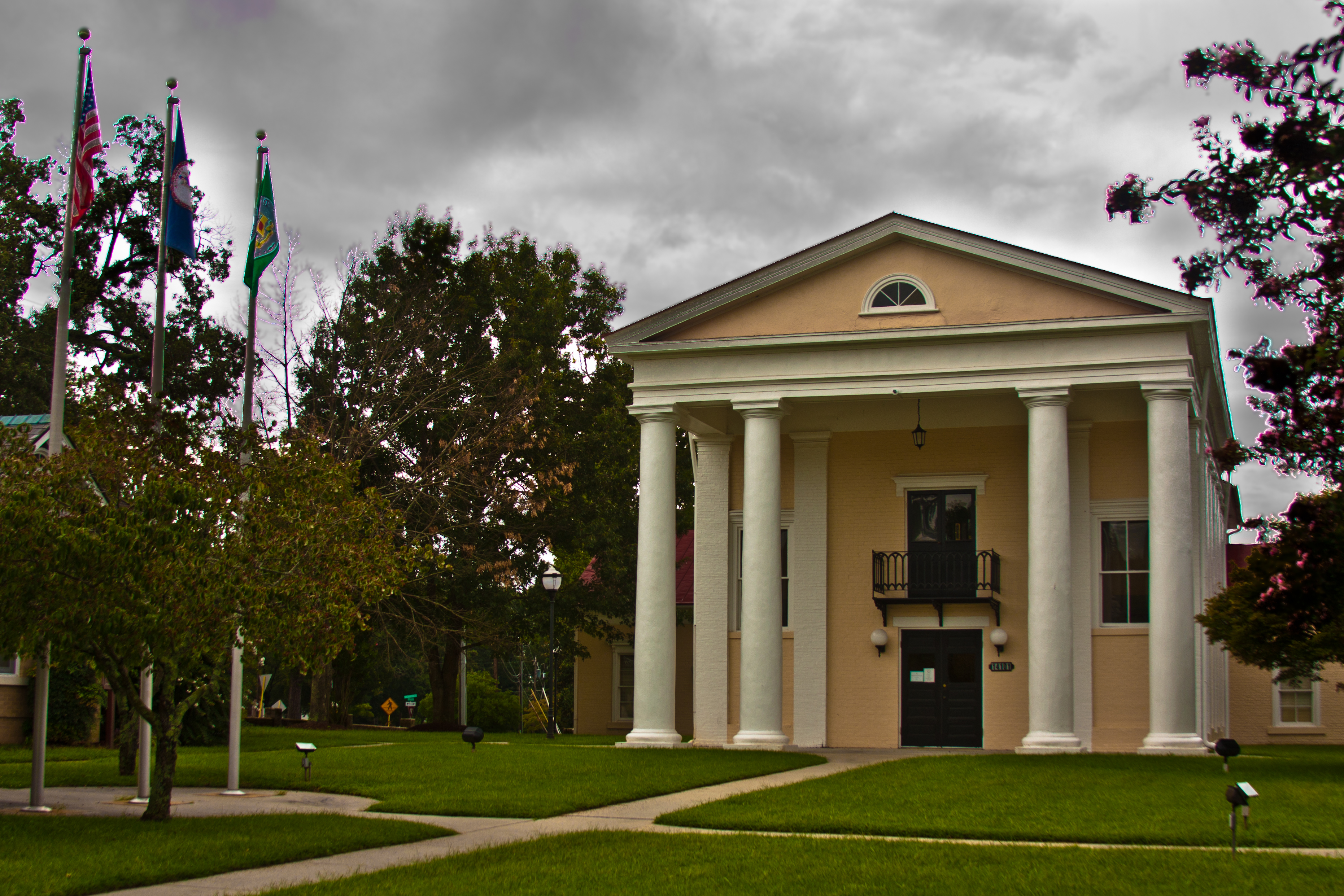 Dinwiddie County Court HouseDinwiddie County Courthouse, Virginia - front view with flags on left side